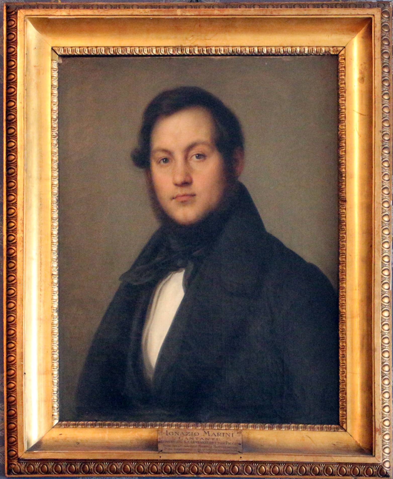 Museo del Teatro alla Scala (Milan)